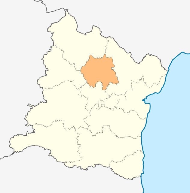 Map of Suvorovo municipality, Varna Province